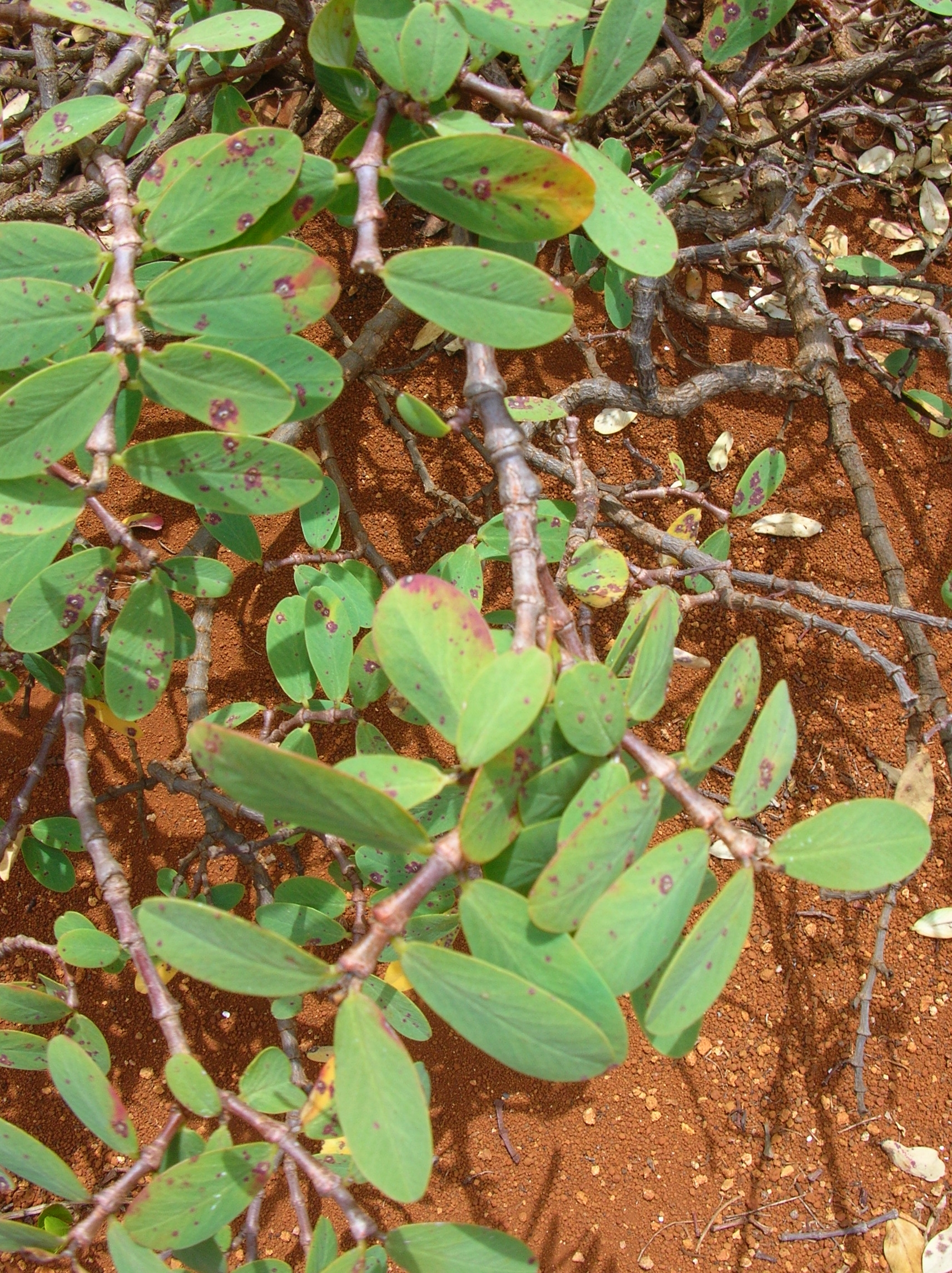 Chamaesyce celastroides (habit). Location: Kahoolawe, K2